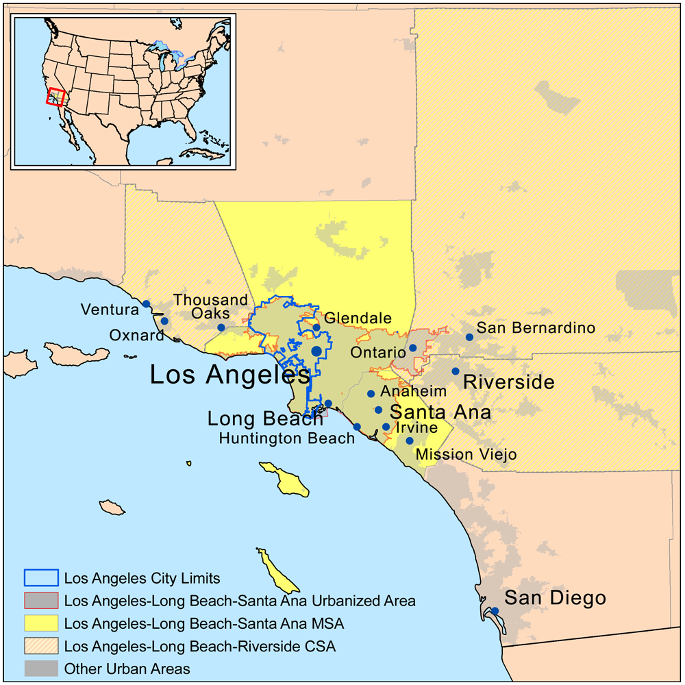 A map of the Greater Los Angeles Area in Southern California. The light gray shading indicates urbanized areas with Greater Los Angeles as defined by urbanized areas outlined in red. The Metropolitan Statistical Area is shown in yellow. The Combined Statistical Area includes the MSA plus those counties that are partially shaded.